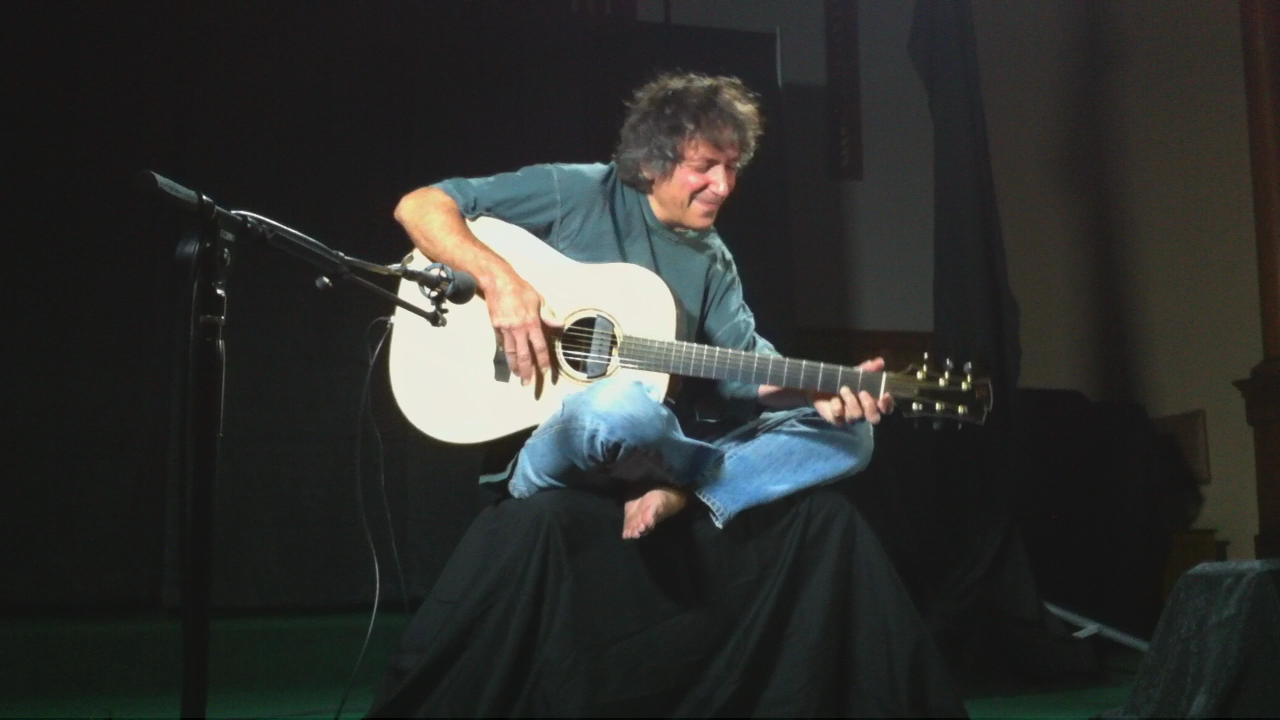 American fingerstyle guitarist Michael Gulezian during a recording session in Ashland, Oregon on September 7, 2010.